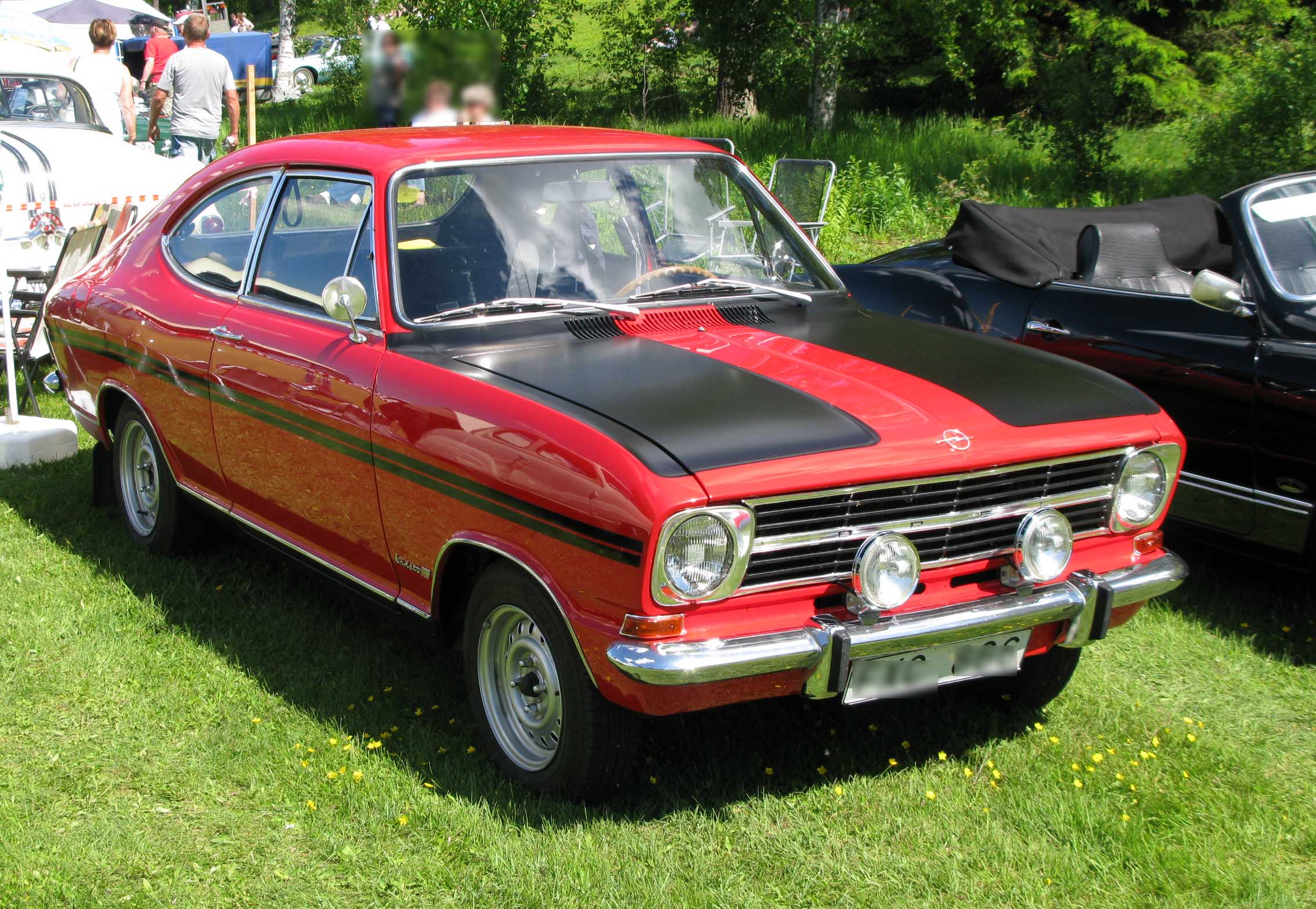 1969 Opel Kadett Rallye.Event: Ånnaboda Classic Motor 2011